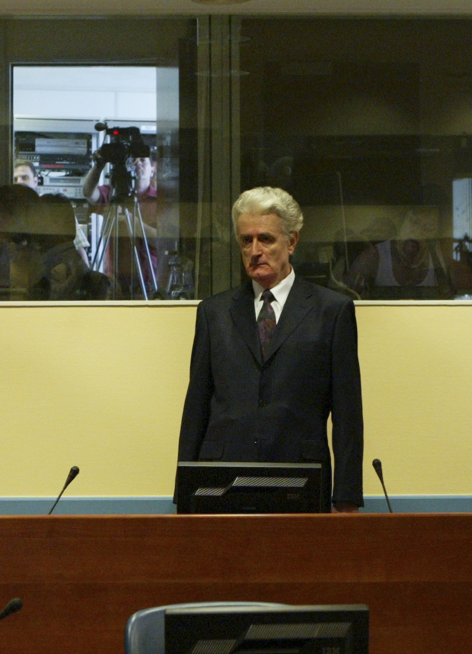 Radovan Karadžić at his initial appearance in court.